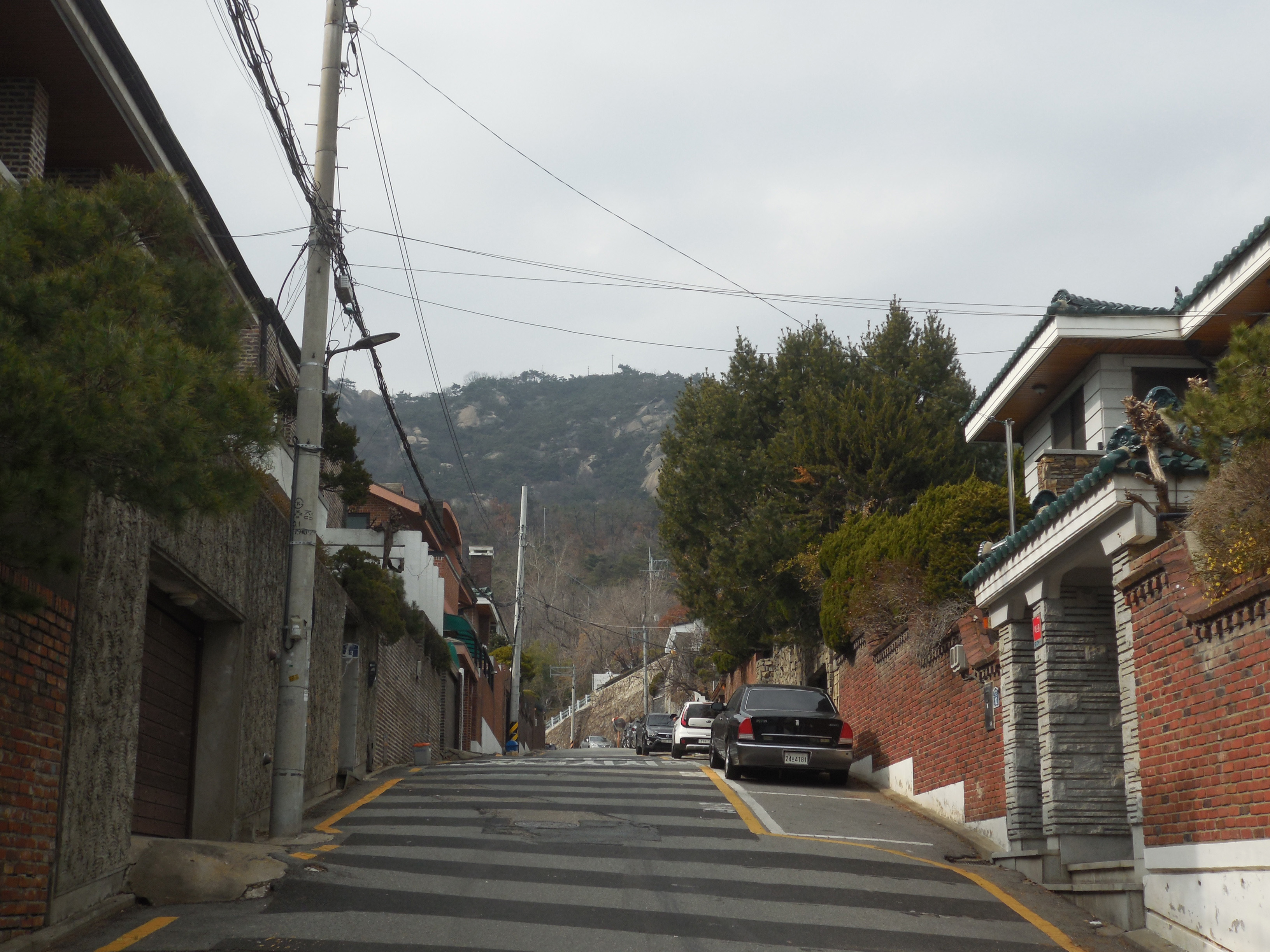 Pirundae-ro 9-gil, Jongno-gu, Seoul.